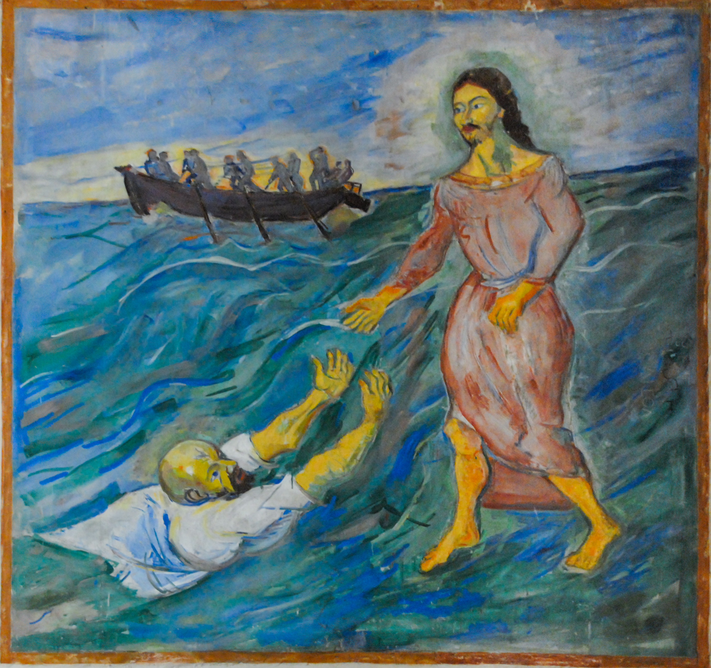 Herbert Boeckl`s fresco "Saint Peter`s rescue from the Lake Galilee" (1928) inside the pilgrimage church Assumption of Mary, market town Maria Saal, district Klagenfurt Land, Carinthia, Austria, EU